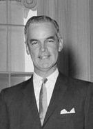 President John F. Kennedy meets with Governor of Indiana Matthew E. Welsh (right of President Kennedy) and two unidentified individuals in the Yellow Oval Room, White House, Washington, D.C.